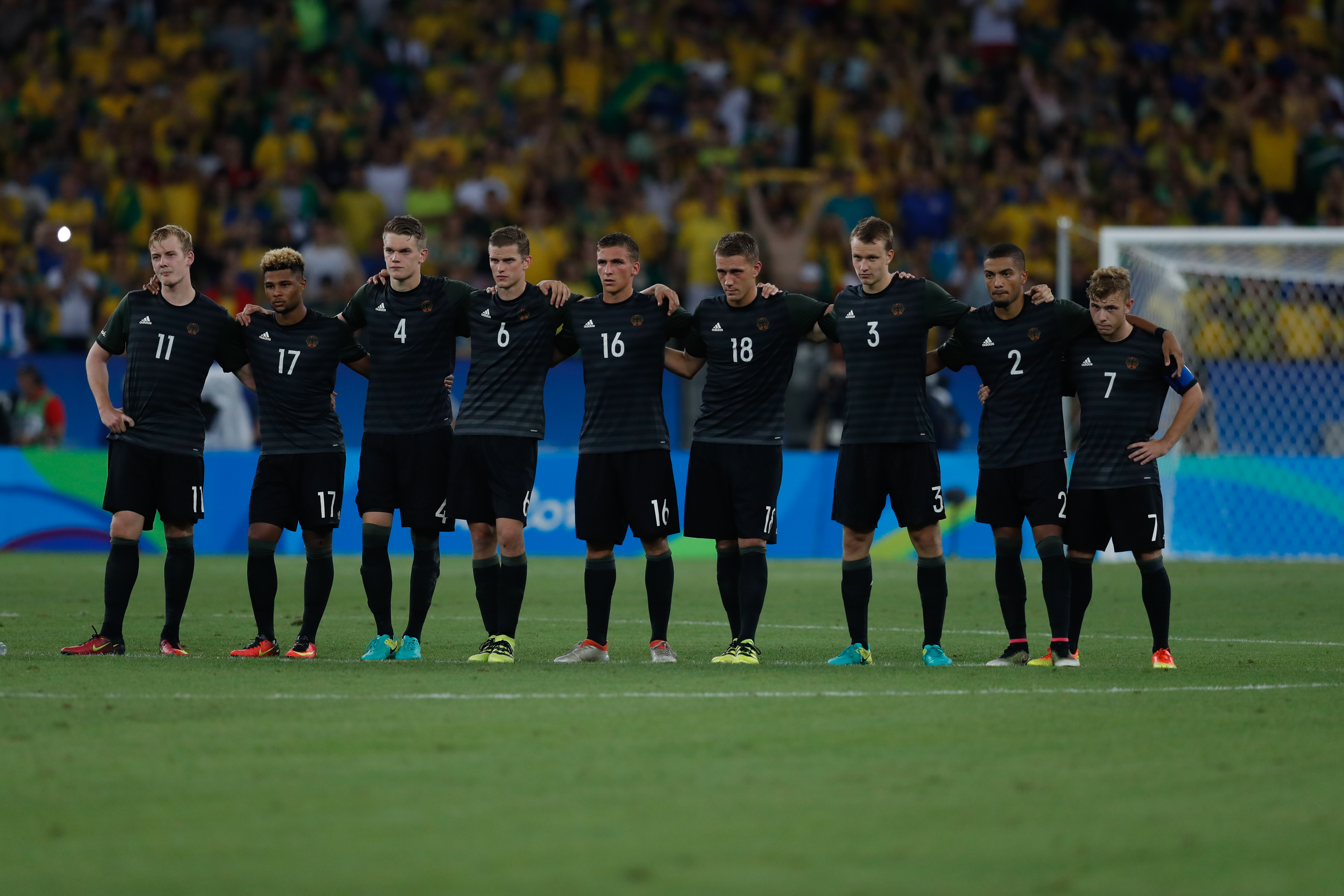 Rio de Janeiro - Brasil vence Alemanha e conquista primeiro ouro olímpico do futebol (Fernando Frazão/Agência Brasil)